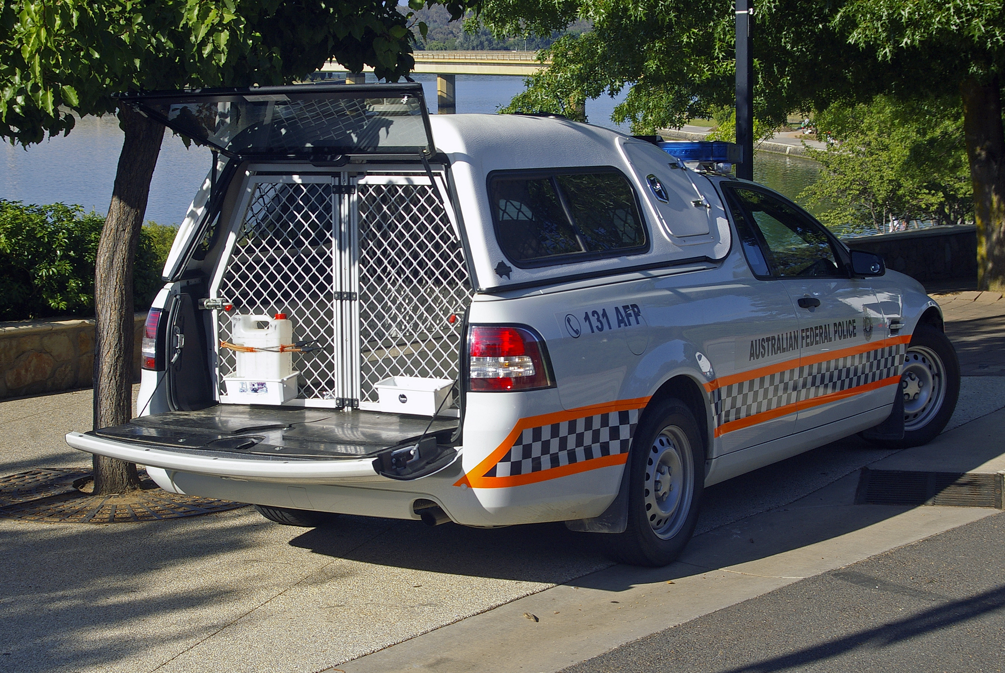 Australian Federal Police K9 Unit - 2007-2008 Holden VE Ute Omega.